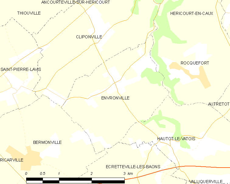 Map of French municipality Envronville